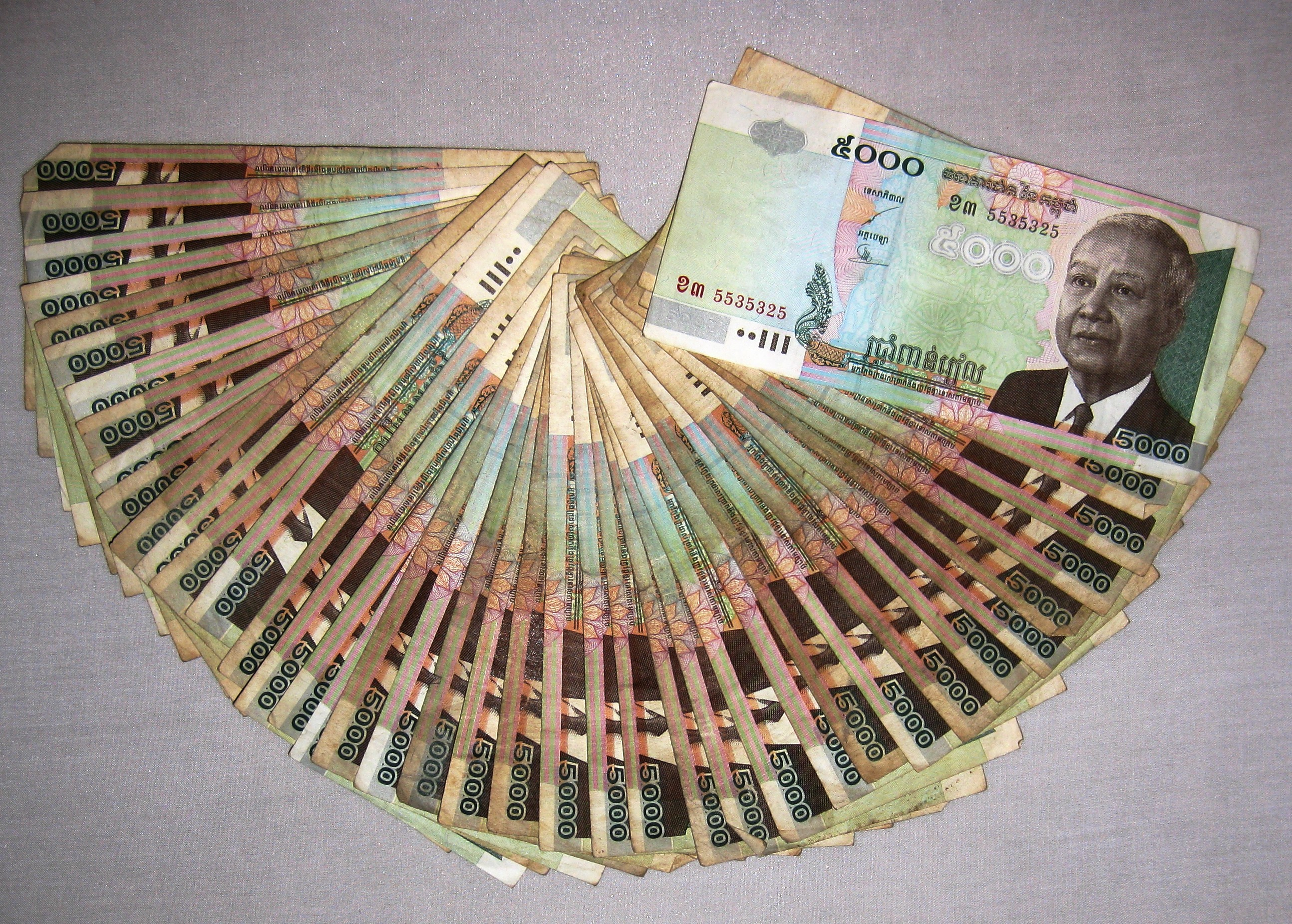 200 000 Cambodian Riel (about 50 US$)